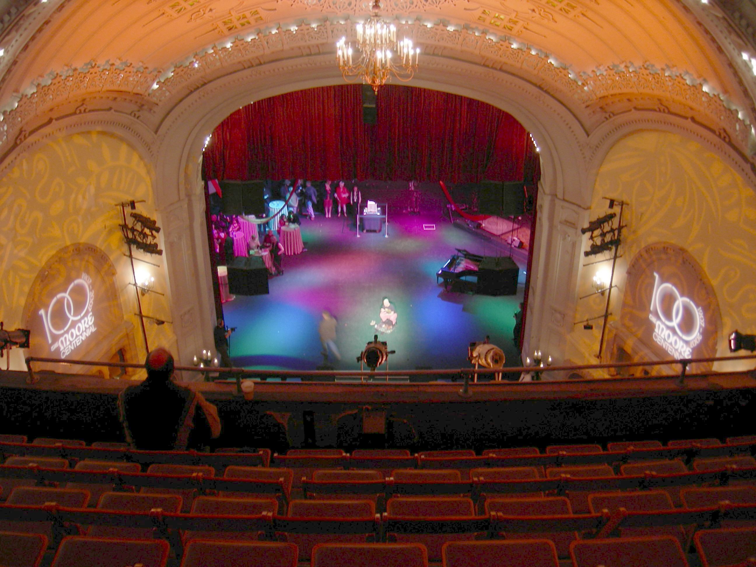 Stage of Moore Theatre, Seattle, Washington, seen from second balcony during the Moore 100 Open House Celebration, celebration of the 100th anniversary of the theater's 100th anniversary. Artis the Spoonman is setting up on the stage.